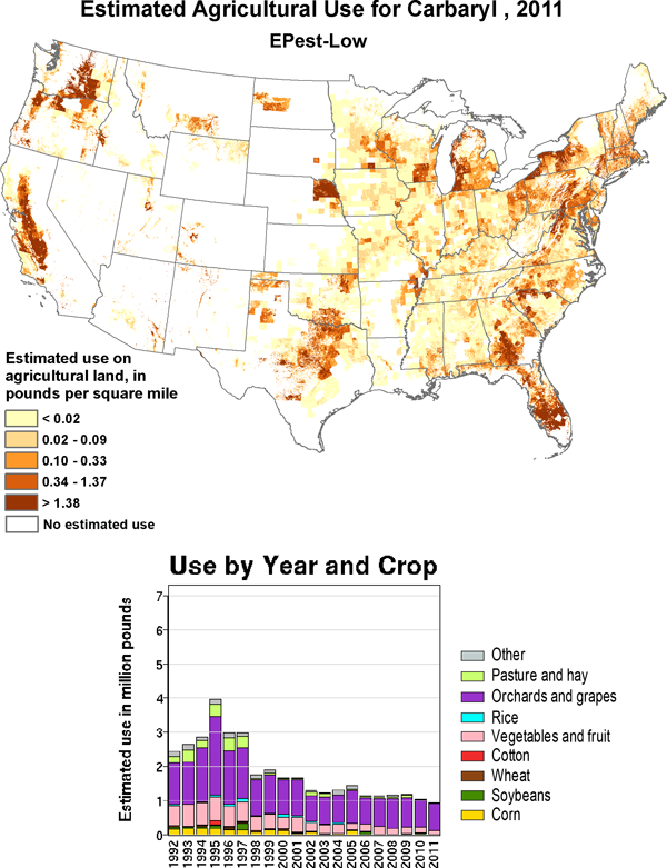 Carbaryl map of use, USA, 2011 (estimated)